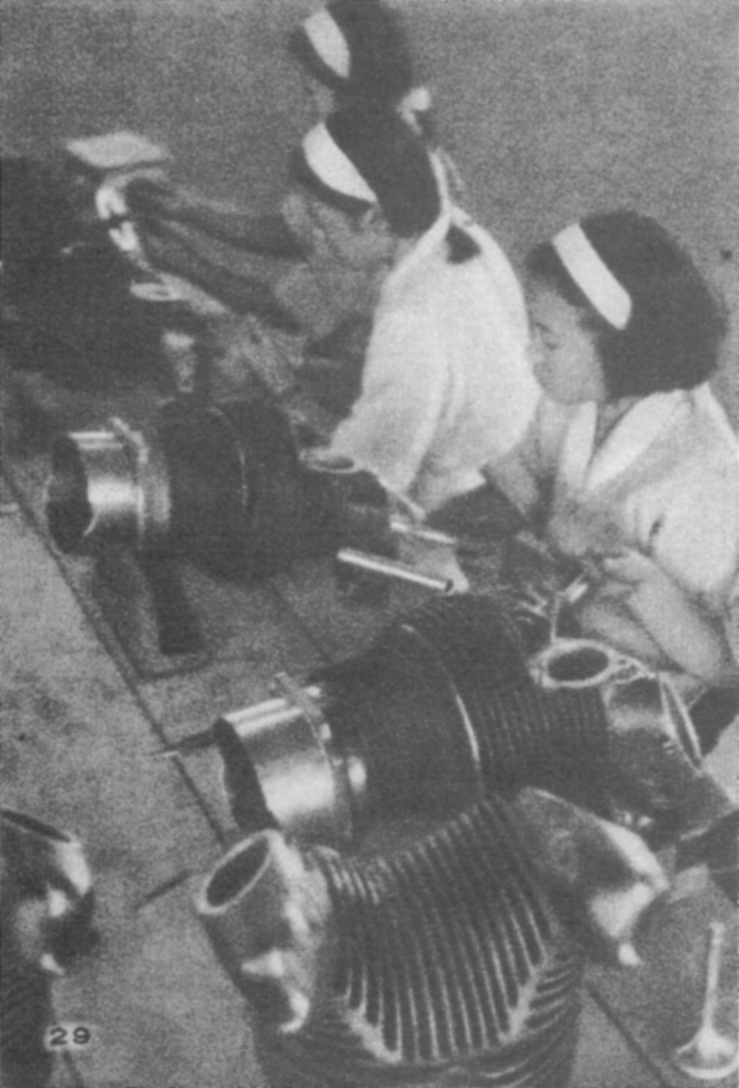 Korean Women's Volunteer Corps working at xx air arsenal (Chinkai 51st Naval Air Arsenal)